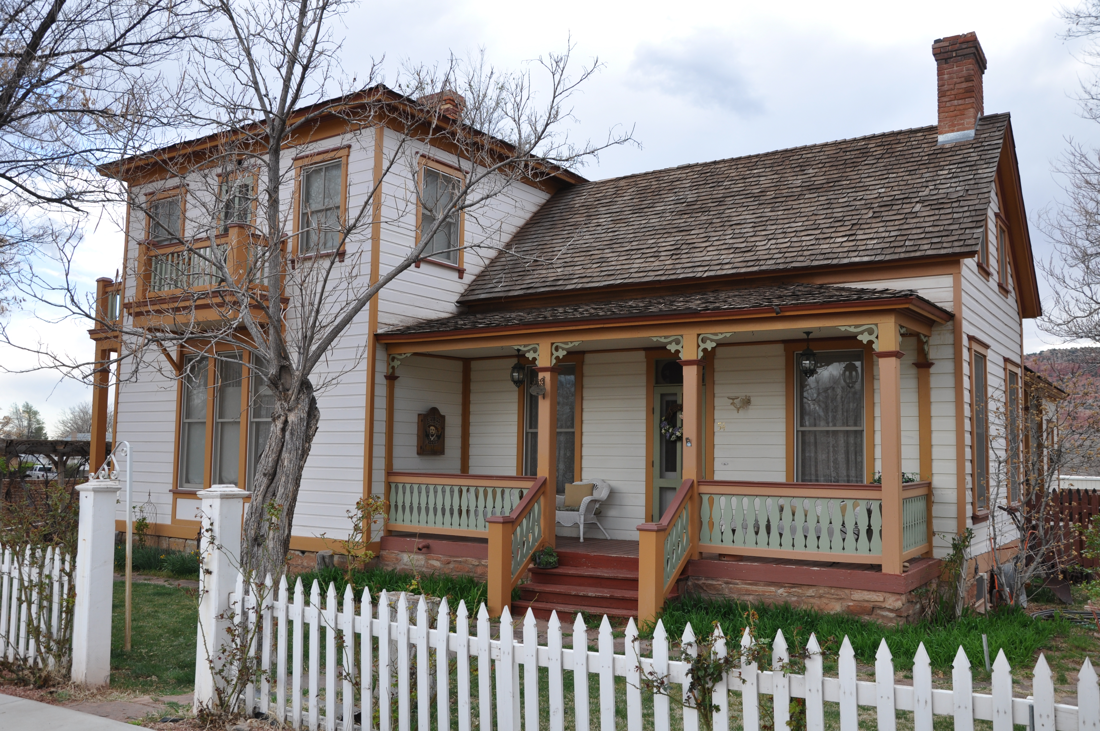 William Derby Johnson, Jr., House in Kanab in the U.S. state of Utah.